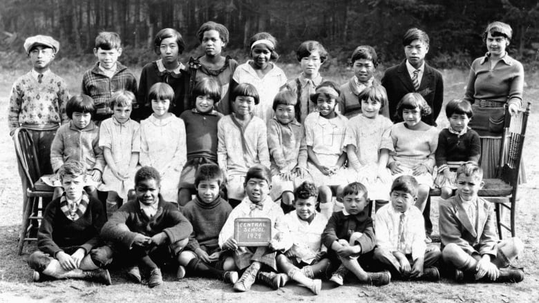 A 1929 class photo from Salt Spring Island's Central School showcasing the Island's early diversity.